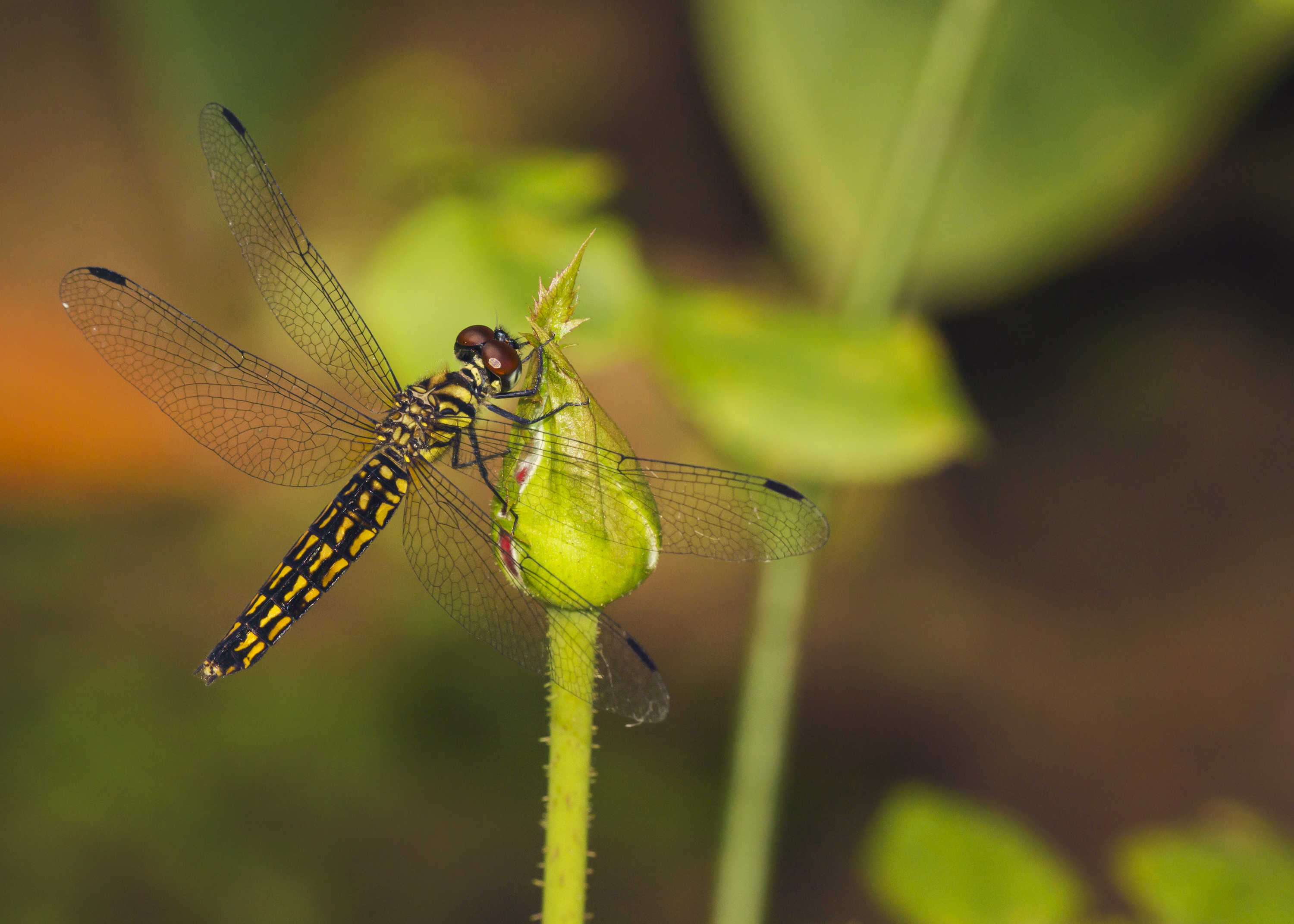 Lyriothemis acigastra, Little Bloodtail. Ref: (ID confirmed by VC Balakrishnan and KG Emiliyamma.)